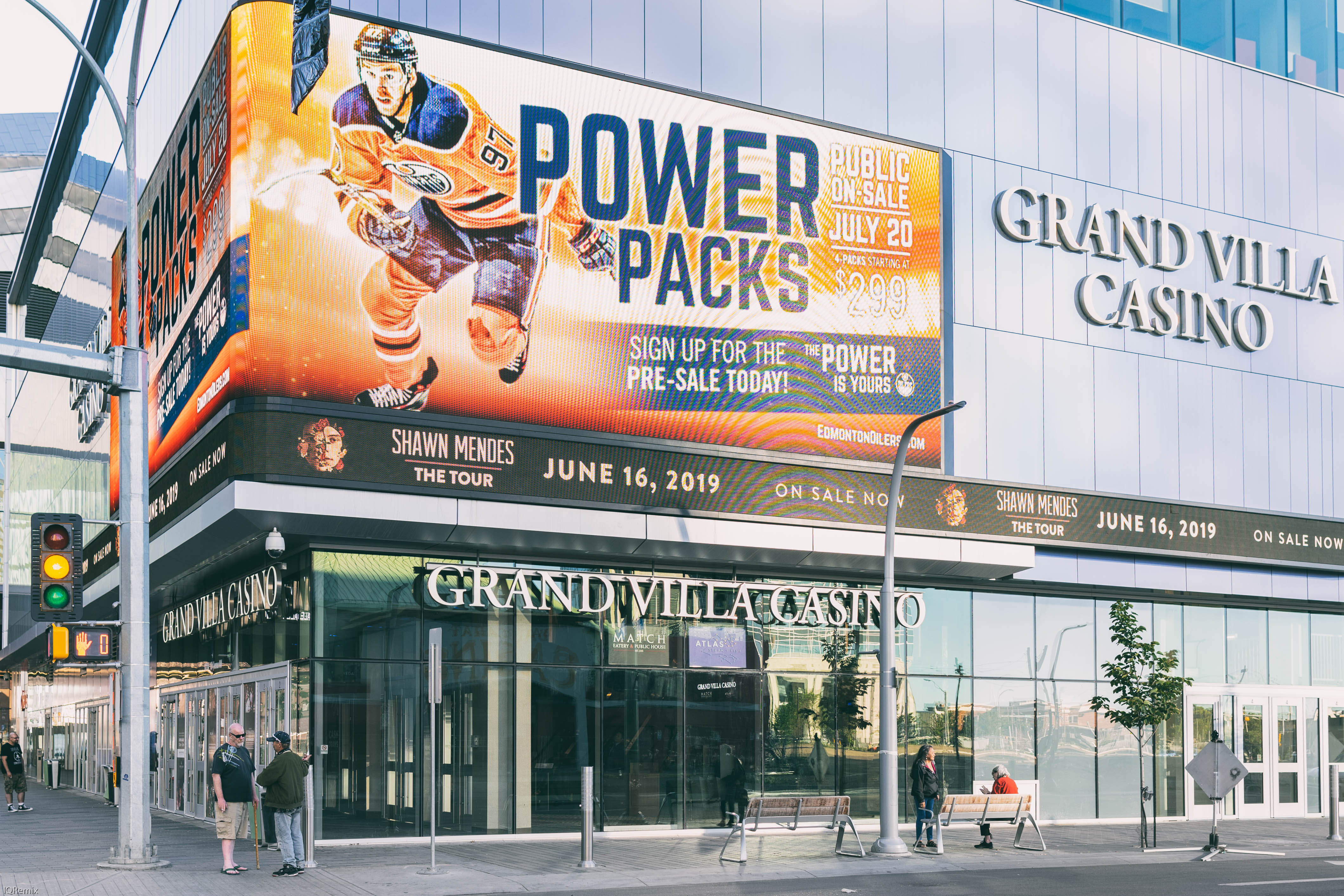 The entrance of the Grand Villa Casino, located in the ICE District in Edmonton, Alberta.